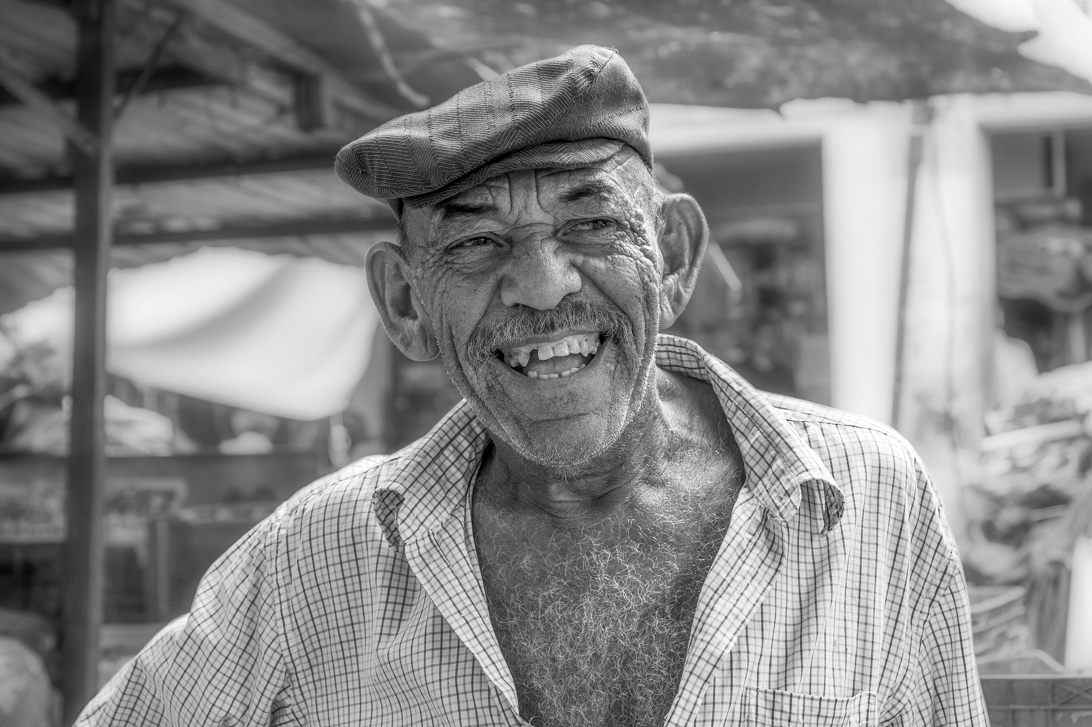 Fishmonger smiling, Maracaibo street market, Venezuela